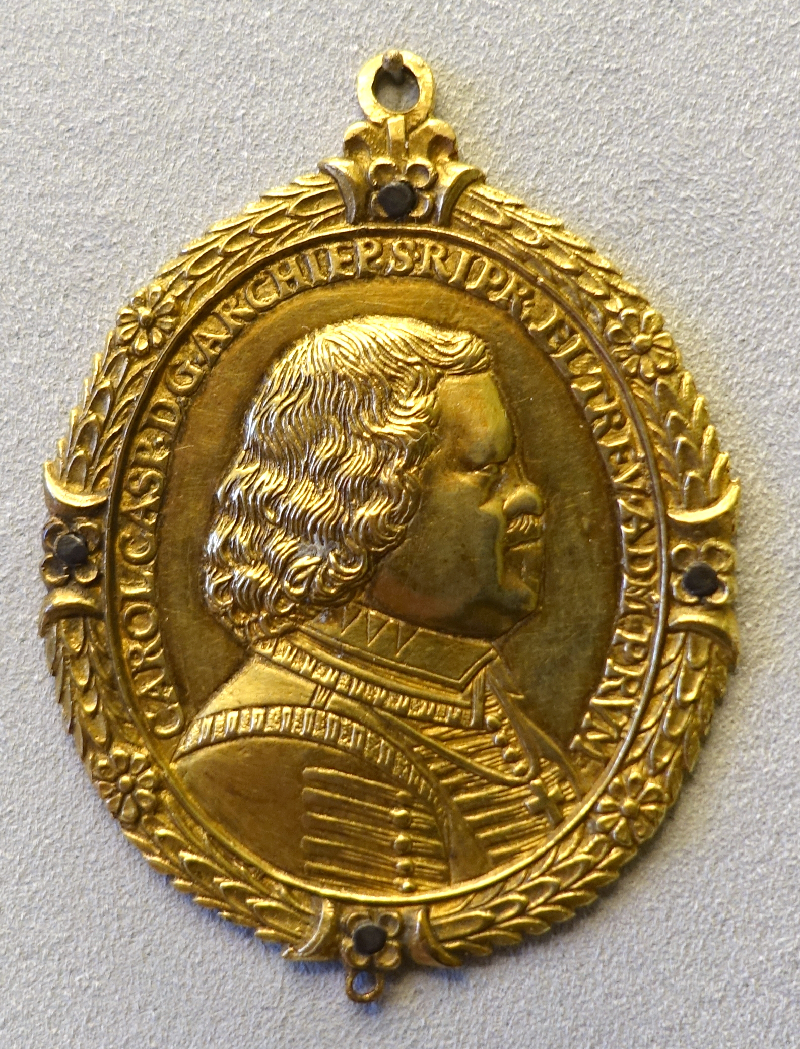 Exhibit in the Bode-Museum, Berlin, Germany. This work is in the public domain because the artist died more than 100 years ago.